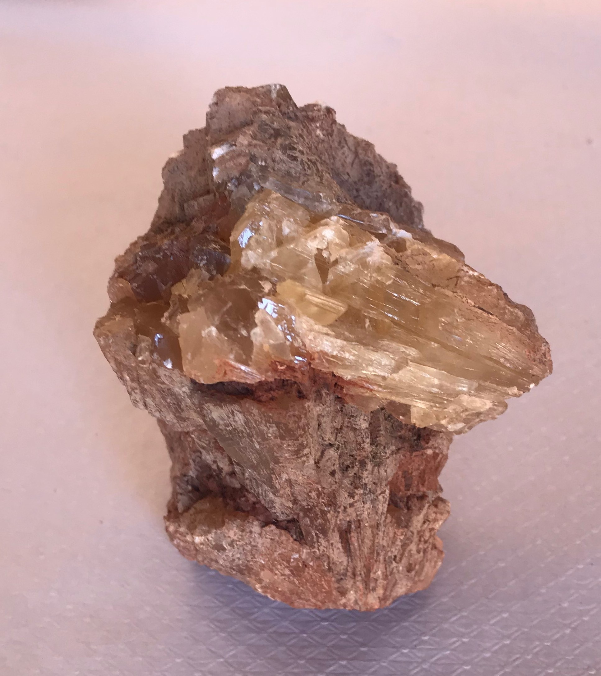 Calcite found in Talaies de Can Jordi (Santanyí)